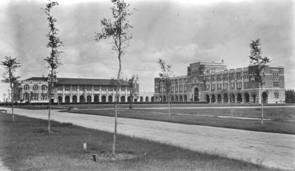 Two buildings on the campus of Rice University. The building on the left is Herzstein Hall and the building on the right is Lovett Hall.